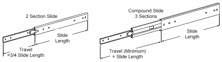 Two-part and three-part compound rack slide